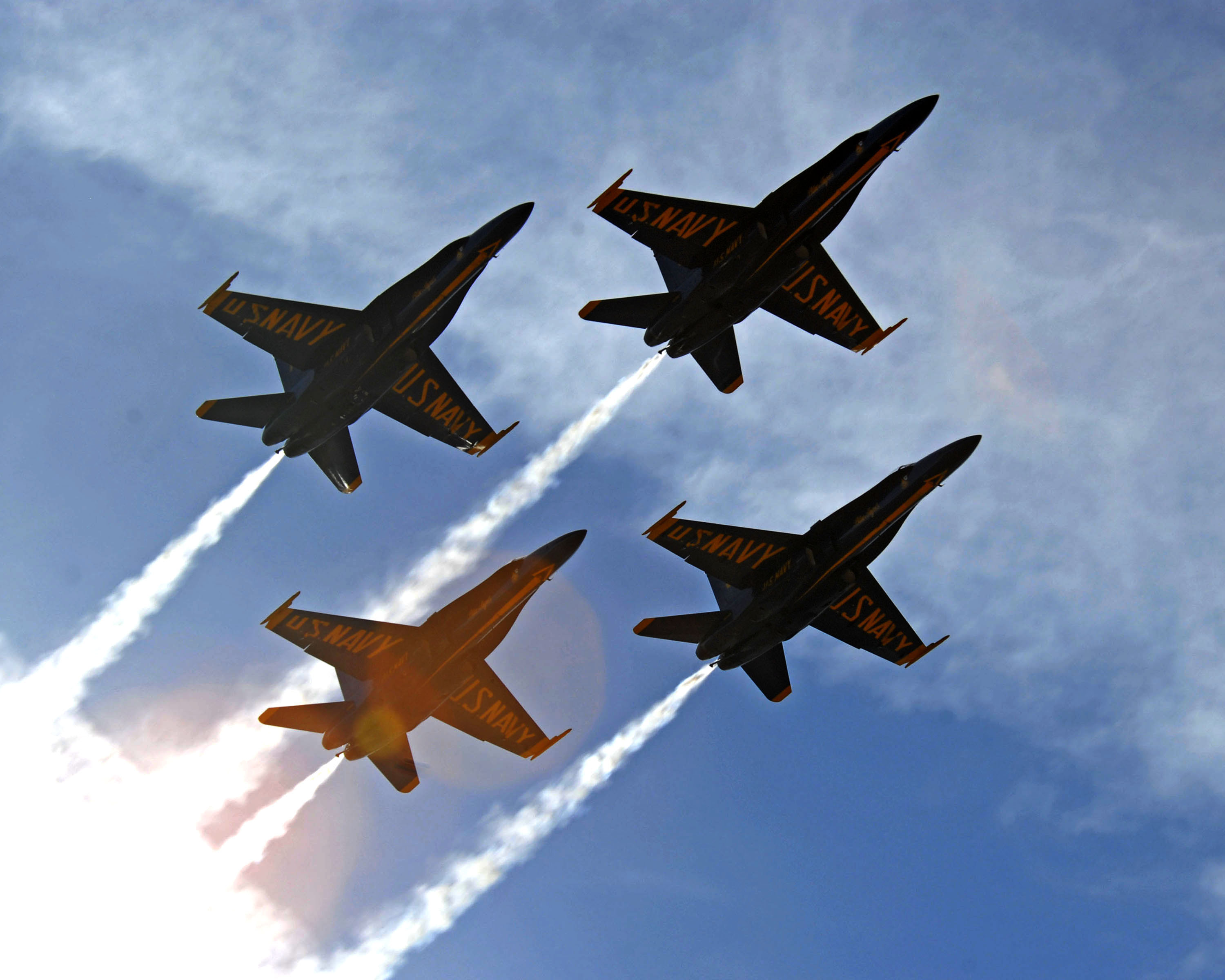 EL CENTRO, Calif. (March 10, 2007) - The Blue Angels fly together in a diamond formation while performing one of their many maneuvers during a public air show. This air show was the first of 66 different air shows to be performed in 35 cities for the 2007 season. U.S. Navy photo by Mass Communication Specialist Seaman Omar A. Dominquez (RELEASED)